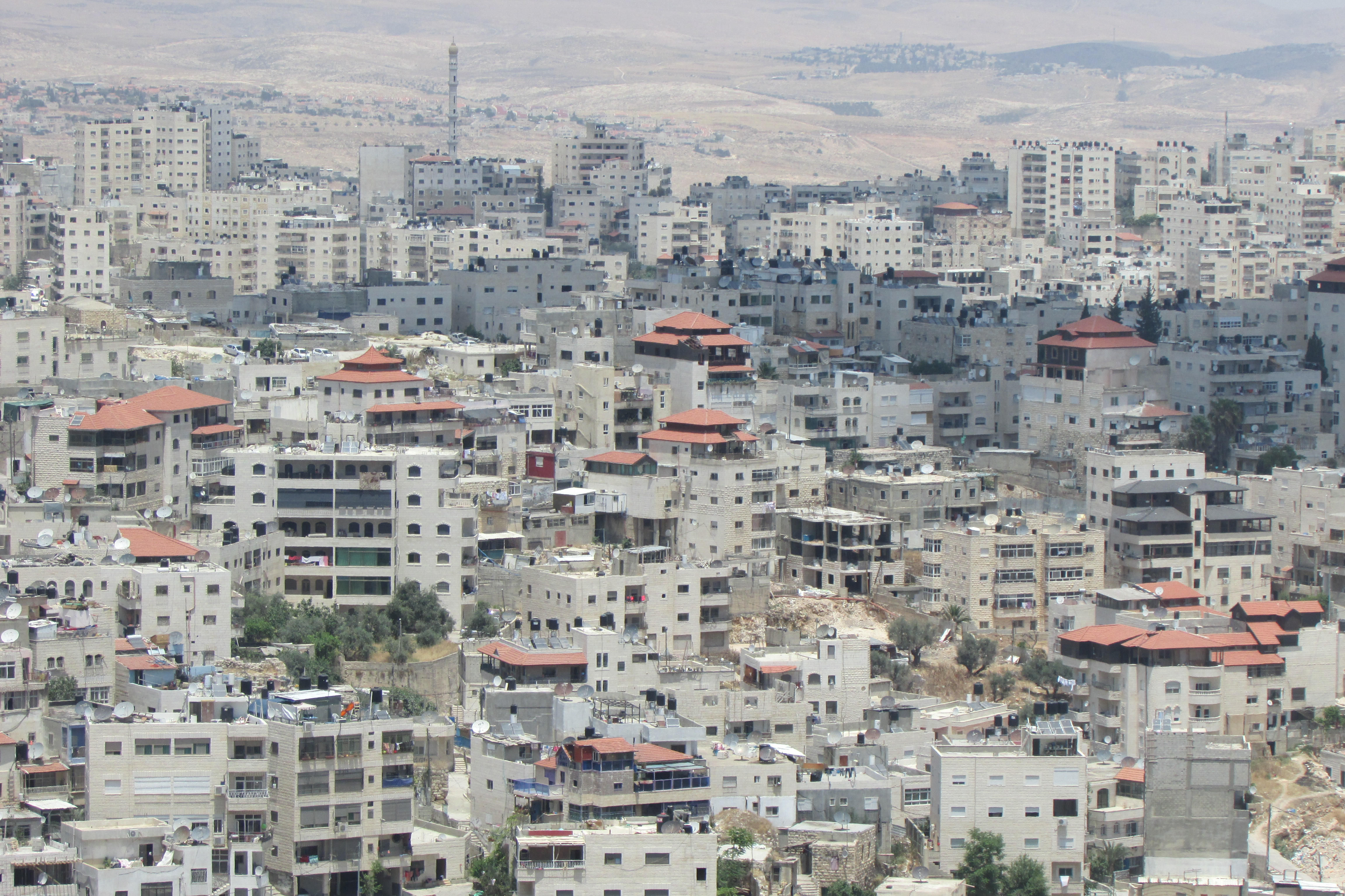 The closer houses are Issawiya. Behind are buildings of Anata. Further behind on the left is Geva Binyamin. On the right is Maale Michmas.